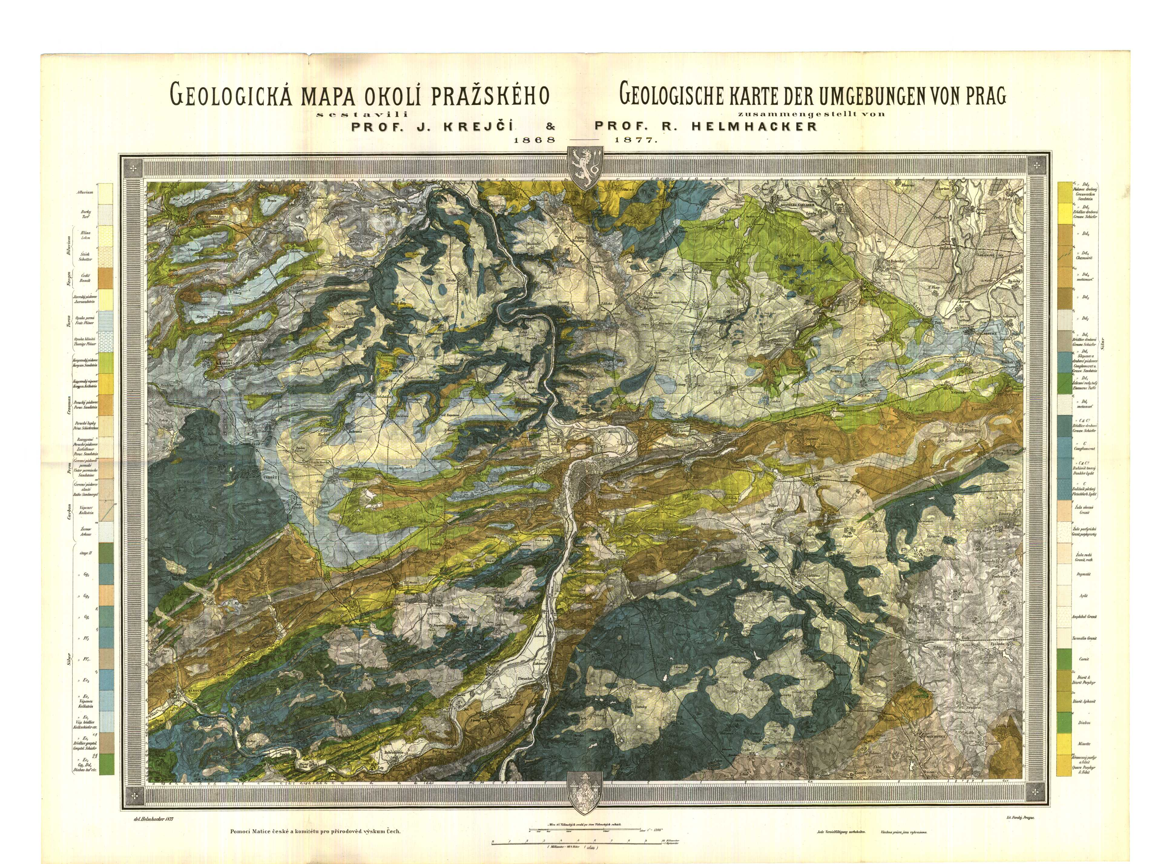 geological map from Prague and environs, 1877 Jan Krejčí and Rudolf Helmhacker